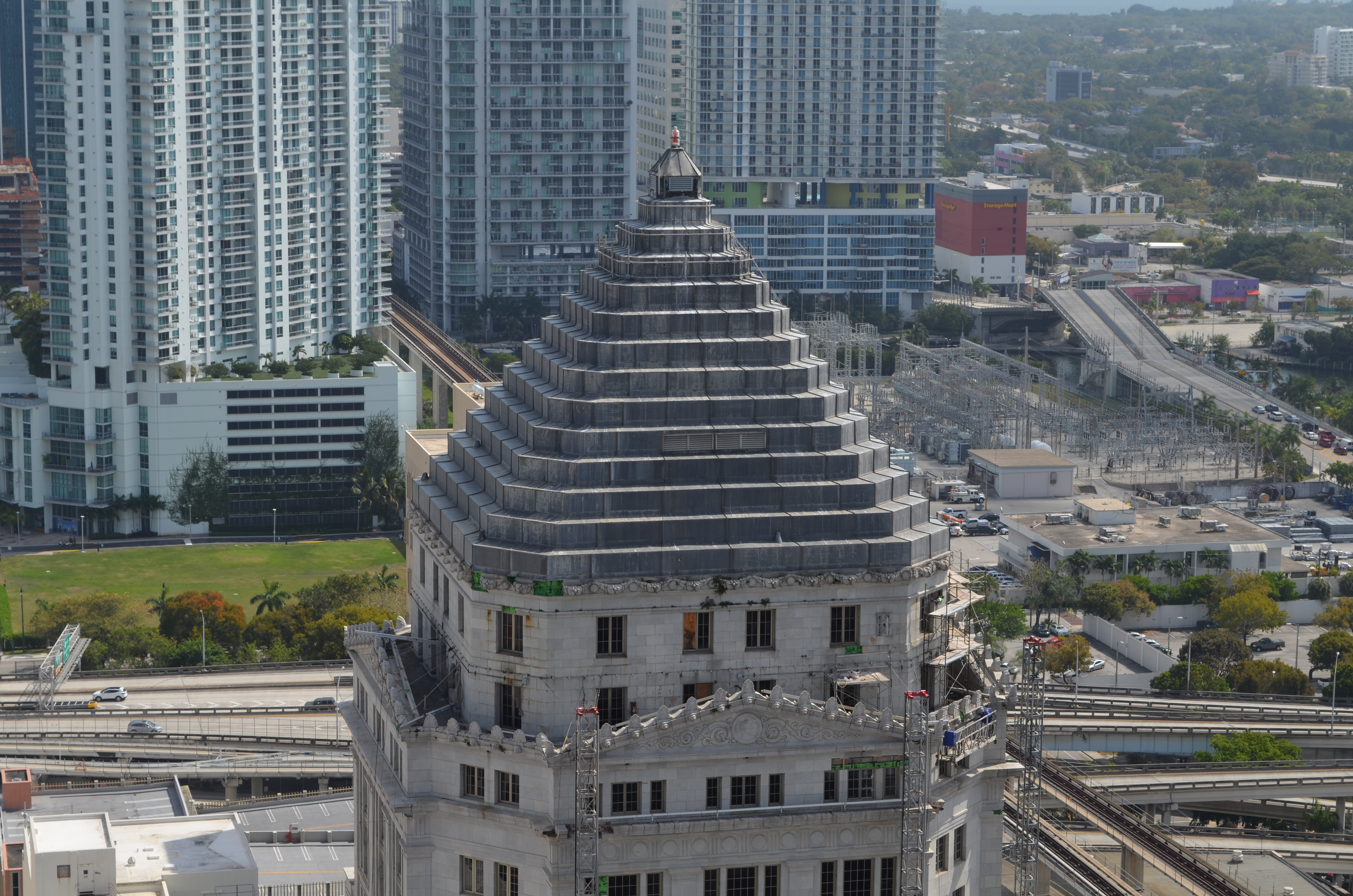 Image that appears like a still out of an establishing panorama sweep for a television program. Focal point is top of the historic Miami-Dade County Courthouse.